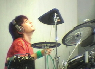 Oliver Rüsing playing the Yamaha DTXtreme IIS live